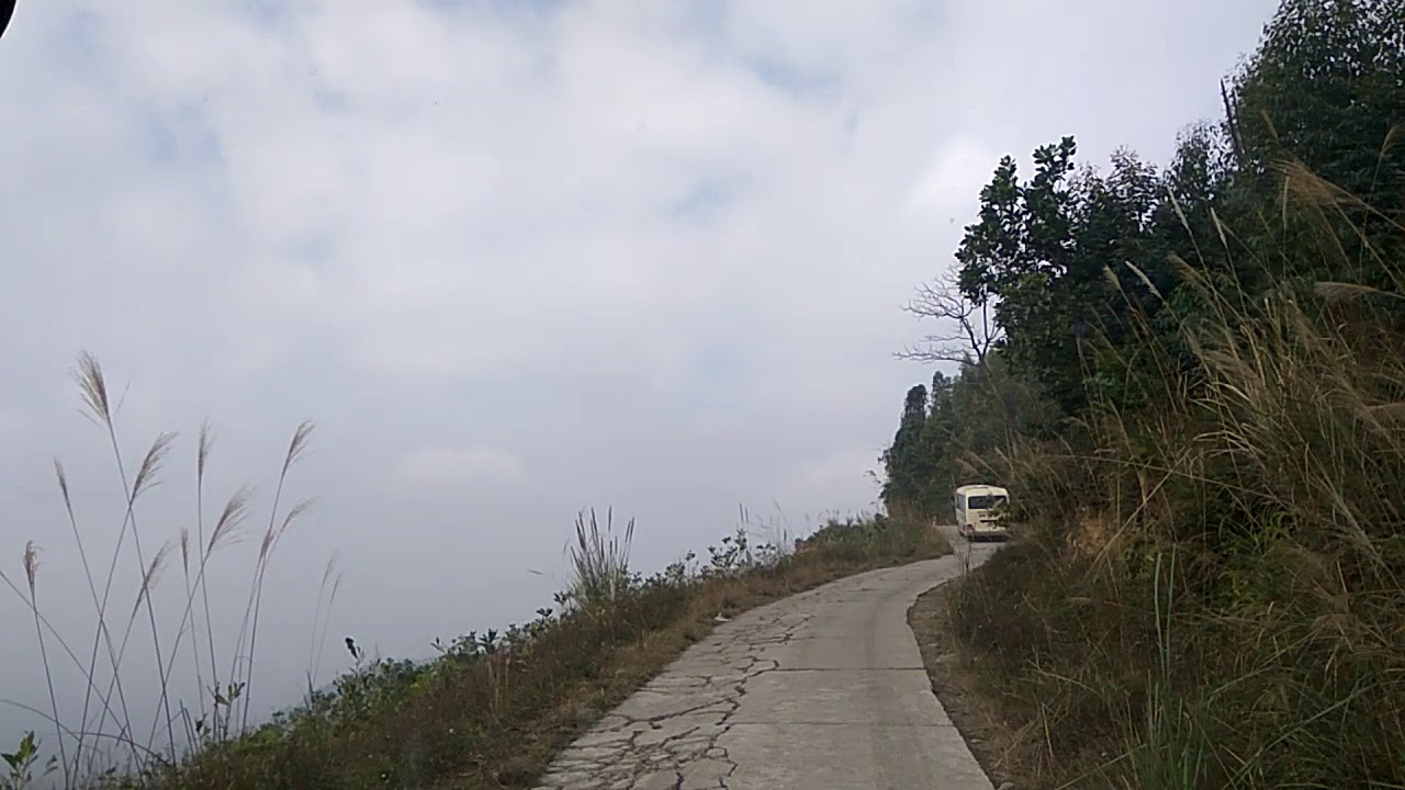 Xóm Mỏ Ba